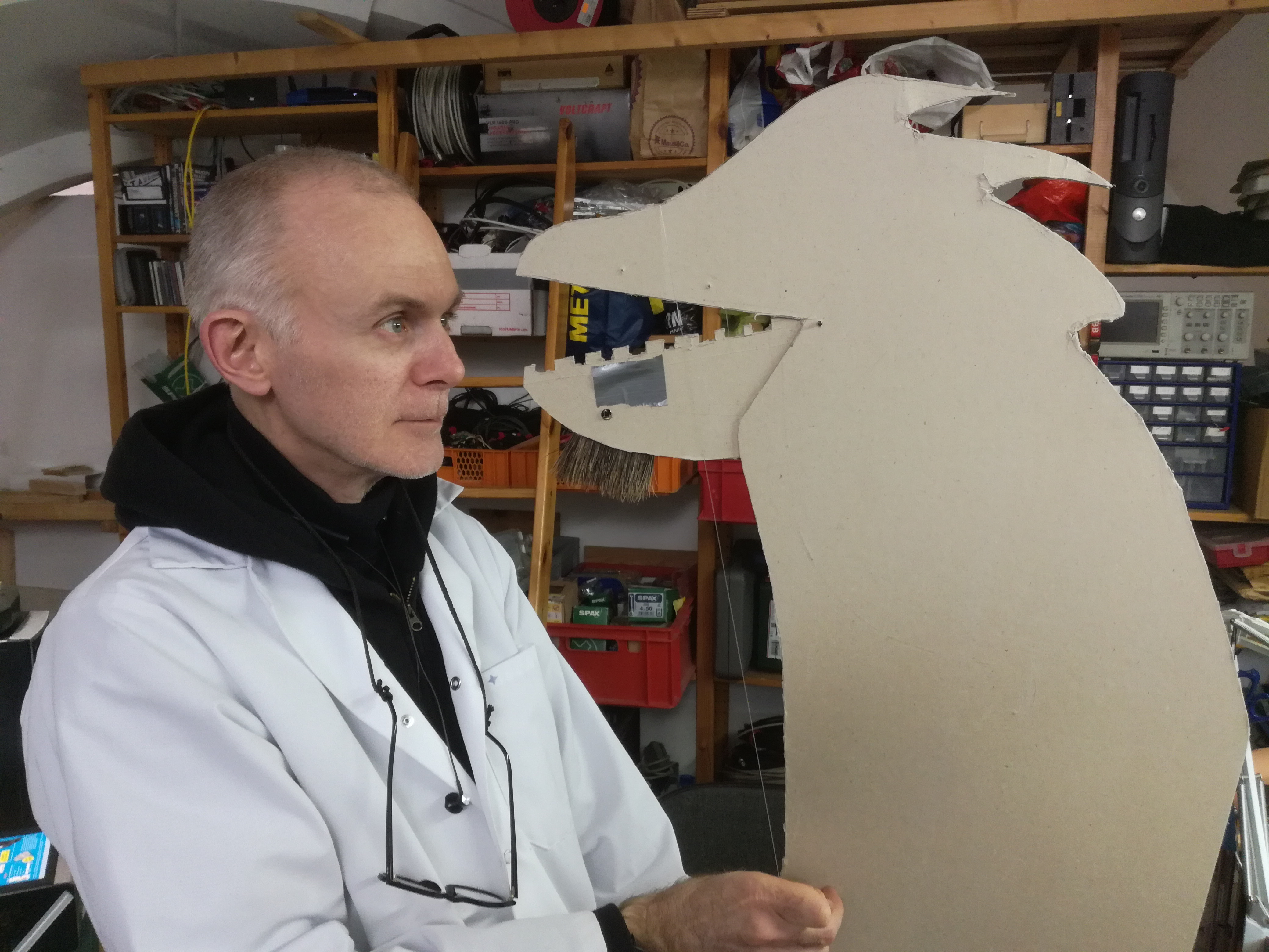 monochrom member Franz Ablinger holding the shadow puppet of Echsenfriedl ("Die Gstettensaga: The Rise of Echsenfriedl", 2014)